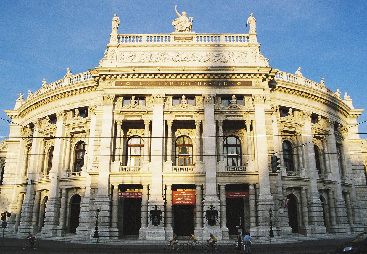 Burgtheater in Vienna, Austria